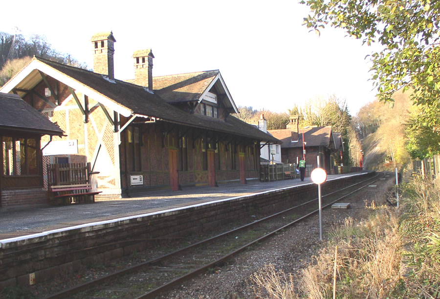 Matlock Bath railway station, showing characteristic "Swiss" styling.